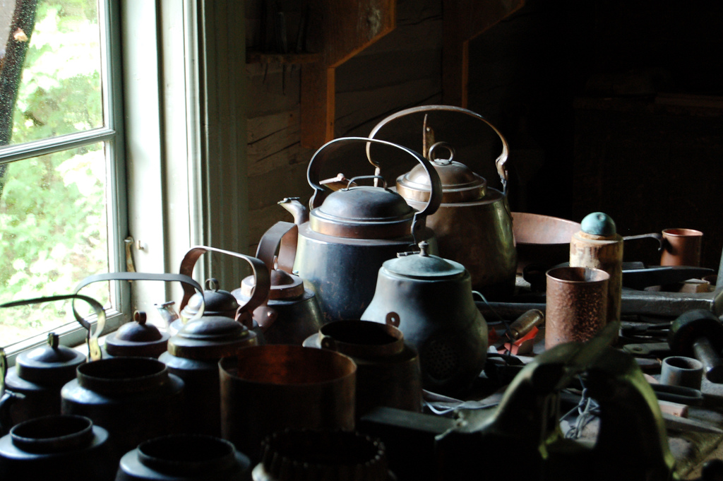 Pots in Turku handicraft museum